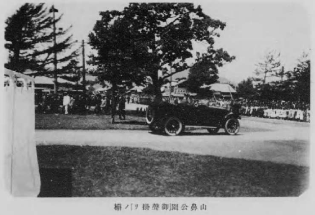 A daimyo oak tree in Yamahana Park, Sapporo, Hokkaido, Japan. Emperor Meiji asked villagers its name in 1881, and Crown Prince Yoshihito (later Emperor Taisho) called to see it in 1911.